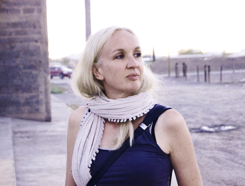 Kiki Sauer, Berlin